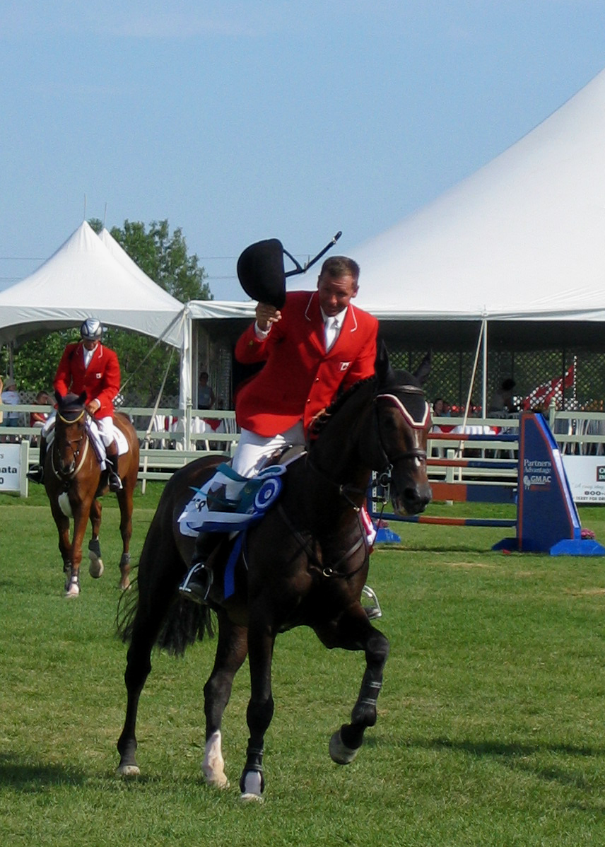 Eric Lamaze and Hickstead, winners of the 2006 Kubota Big Ben Memorial Grand Prix (Kubota Capital Classic Show Jumping Tournament, Nepean National Equestrian Park, Ottawa, Canada).